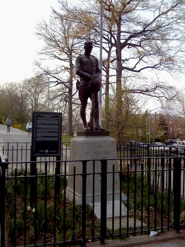 The Doughboy monument in Doughboy Park, southwest of Woodside Avenue, Woodside, NY, USA. It was sculpted by Burt W. Johnson (1890-1927), who also created a similar monument in DeWitt Clinton Park in Manhattan. This monument was dedicated on Memorial Day in 1923.